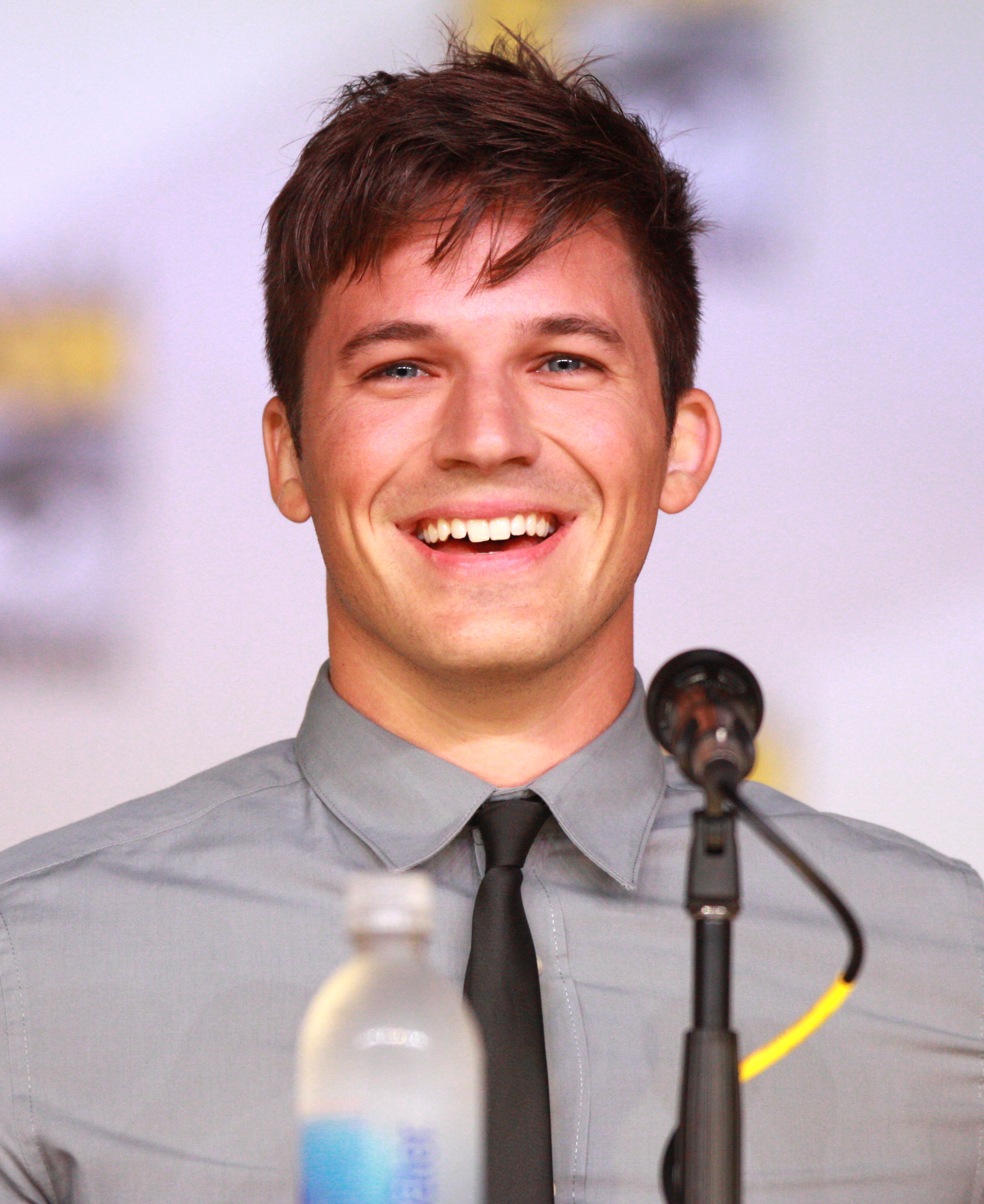 Matt Lanter at the 2013 San Diego Comic Con International in San Diego, California.